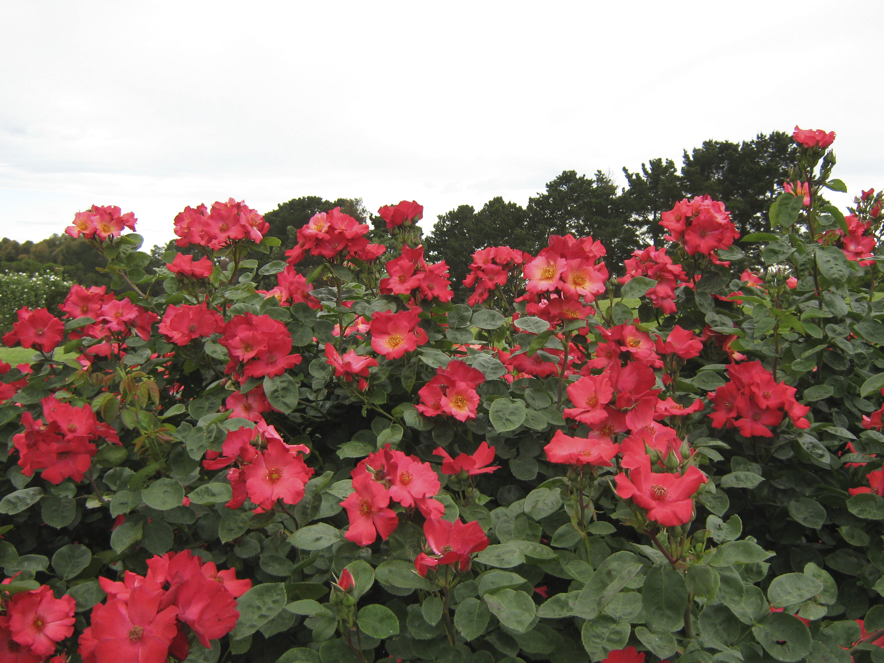 Rose 'Kwinana '1962 by Riethmuller seen massed at the Victoria State Rose Garden, Werribee Park, Victoria